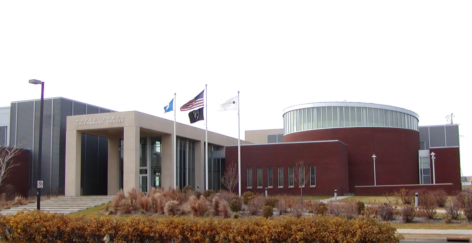 Maple Grove Government Center in Maple Grove, Minnesota in 2006. Photo: William Wesen.